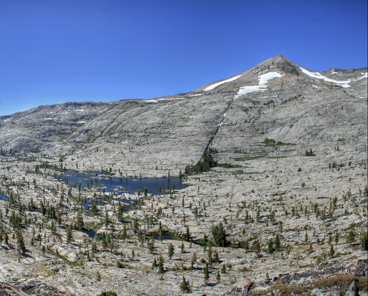 Pyramid Peak, with Pyramid Lake below — in the Desolation Wilderness area of the Sierra Nevada, in El Dorado County, California. Credits Photo by phreakdigital, Mike Grindstaff Category:Images of California